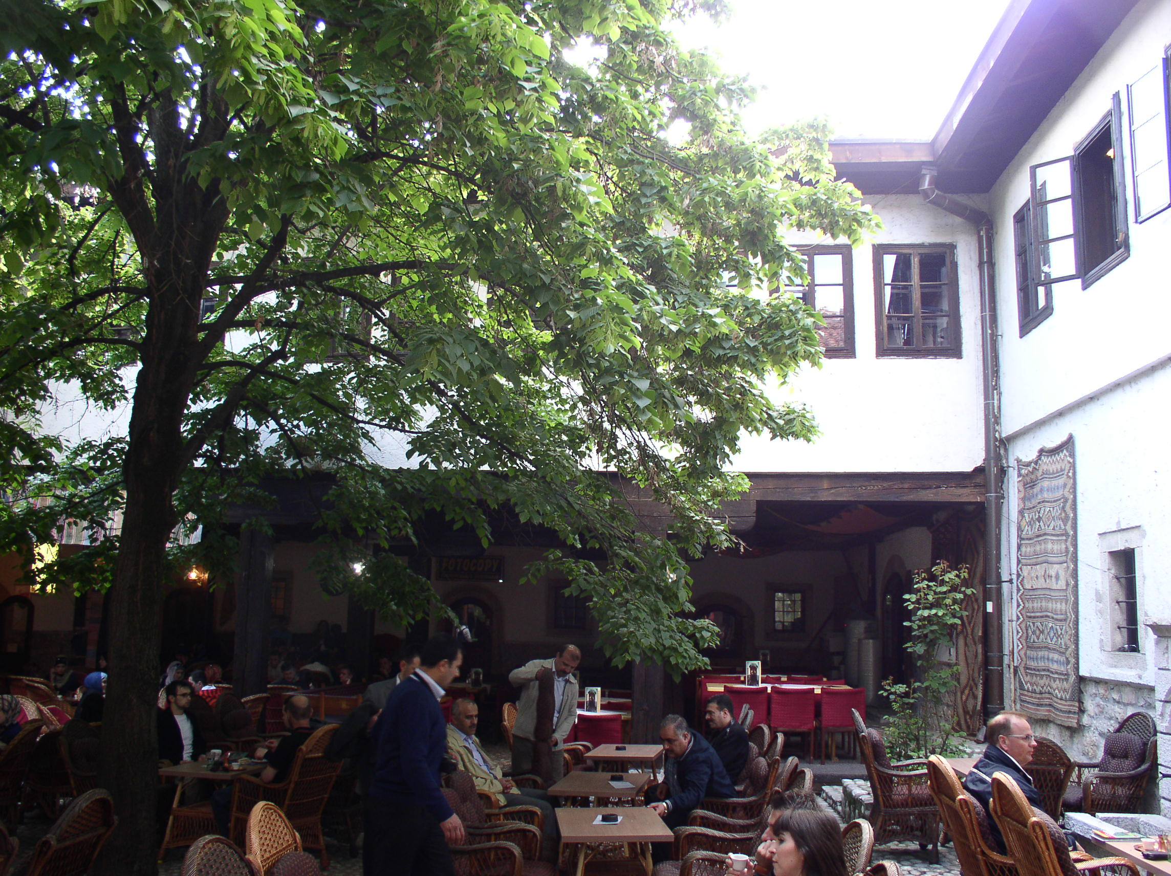 Morića Han in Sarajevo